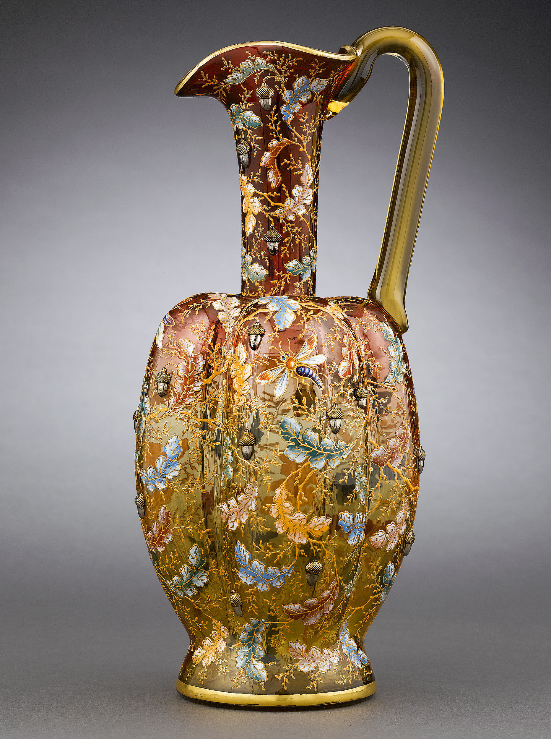 Moser glass pitcher with “Amberina" ombre coloring and enamel decoration. Circa 1880